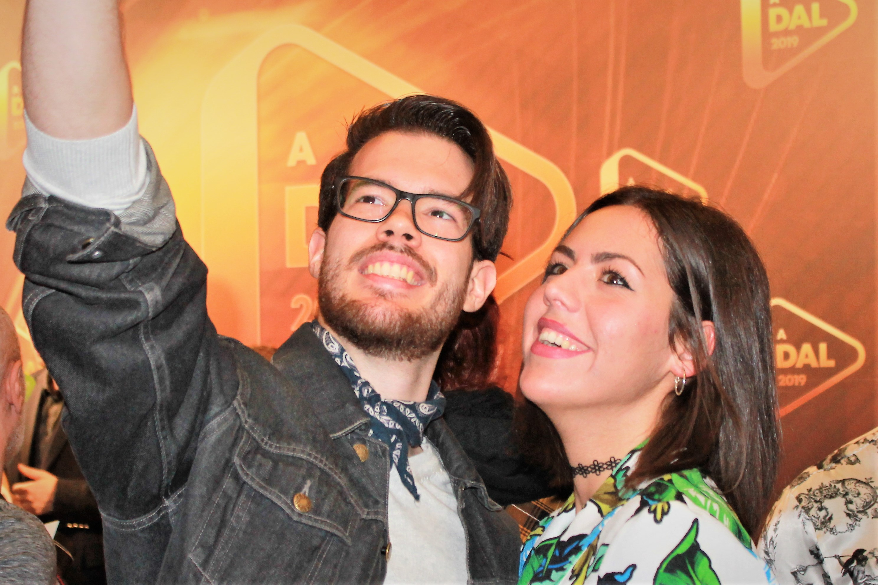 A Dal 2019 participant: the Acoustic Planet